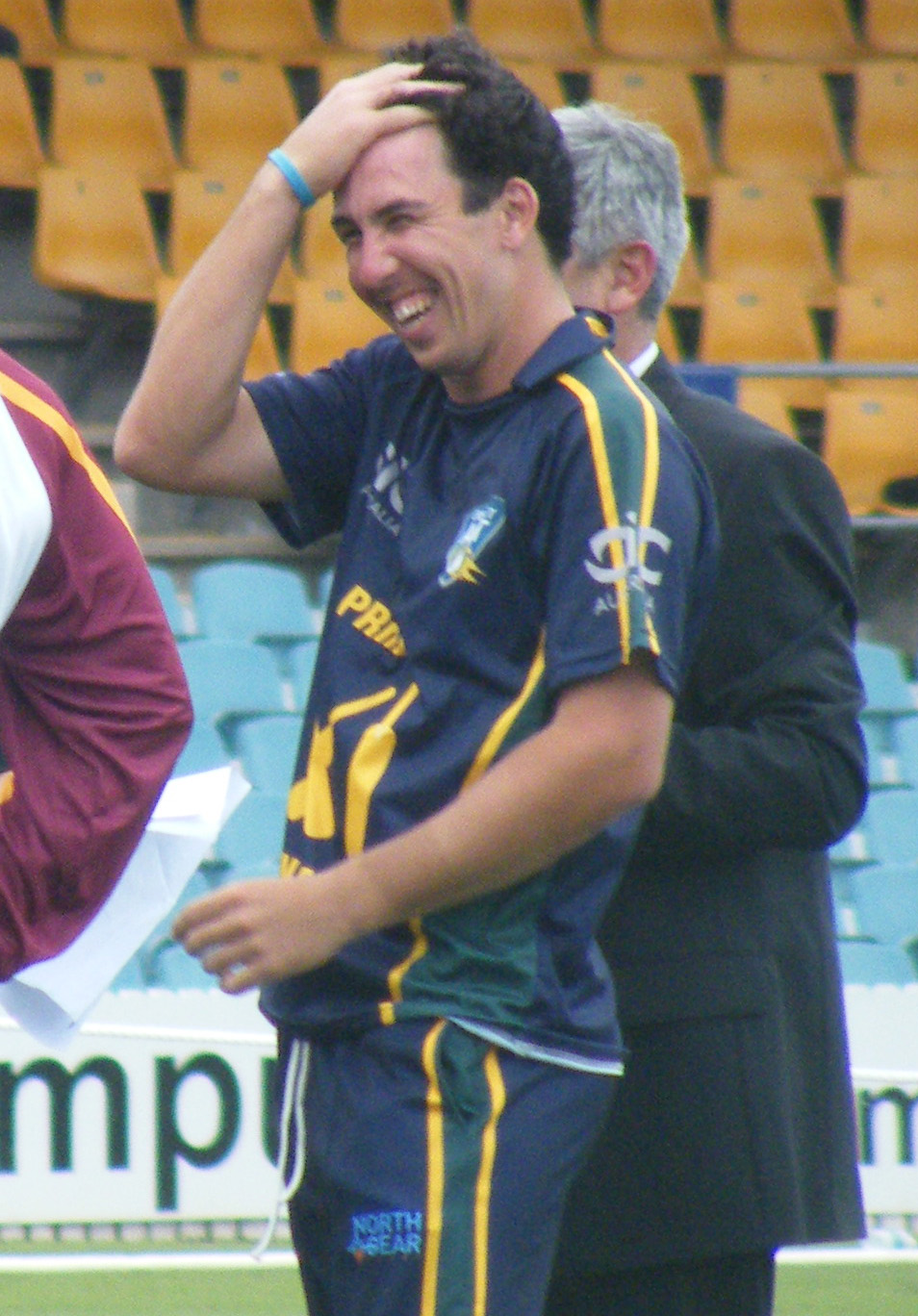 Tom Cooper at the Prime Ministers 11 Cricket match in Canberra 2010.